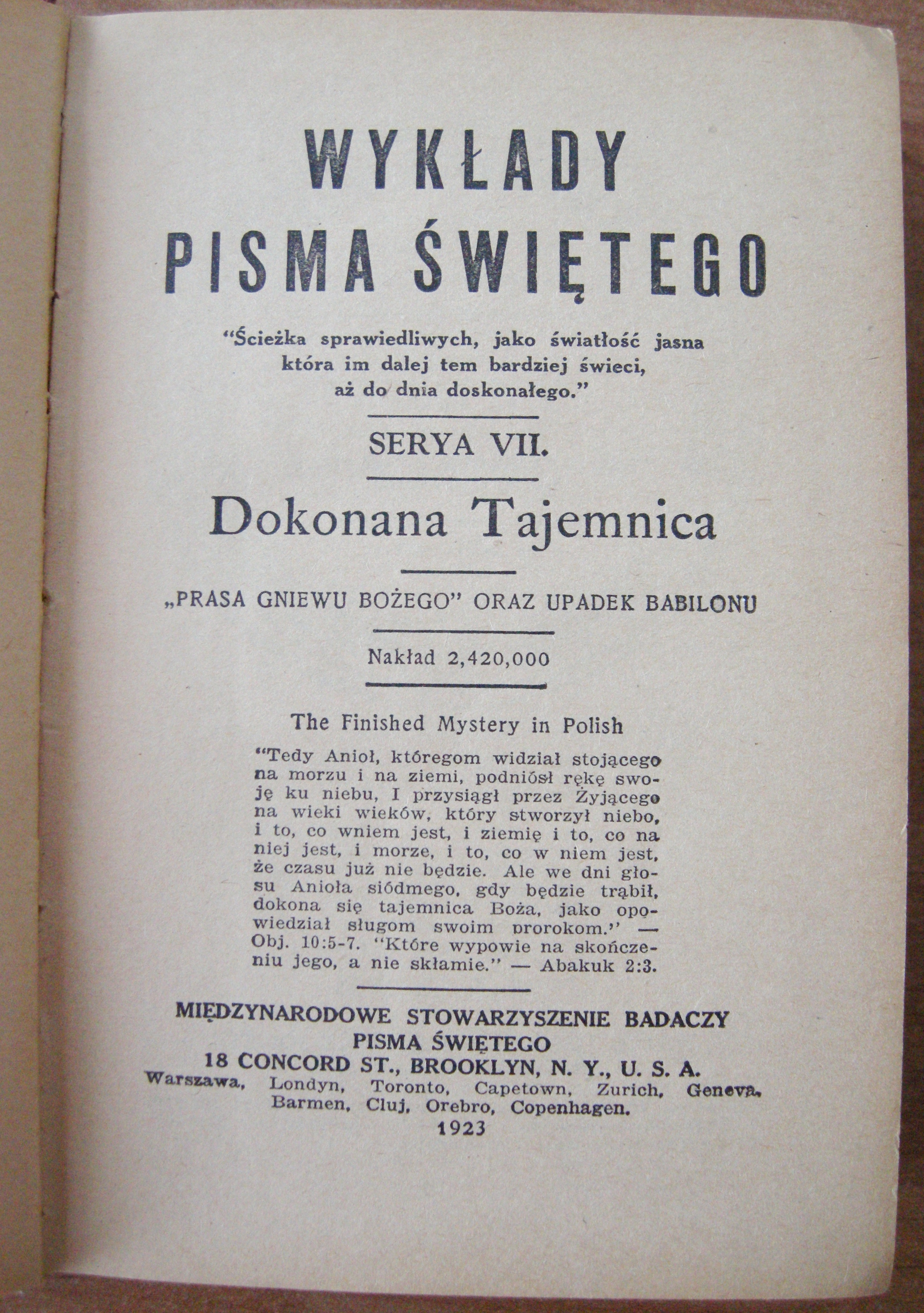 The Finished Mystery